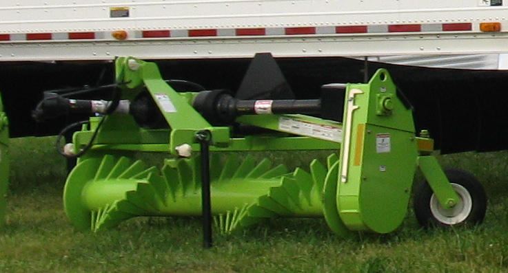 A Schulte rock windrower (a tool for rock removal from fields) at Ag Progress Days (APD) 2009 in Pennsylvania, USA. Schulte Industries is a Canadian machine manufacturer.